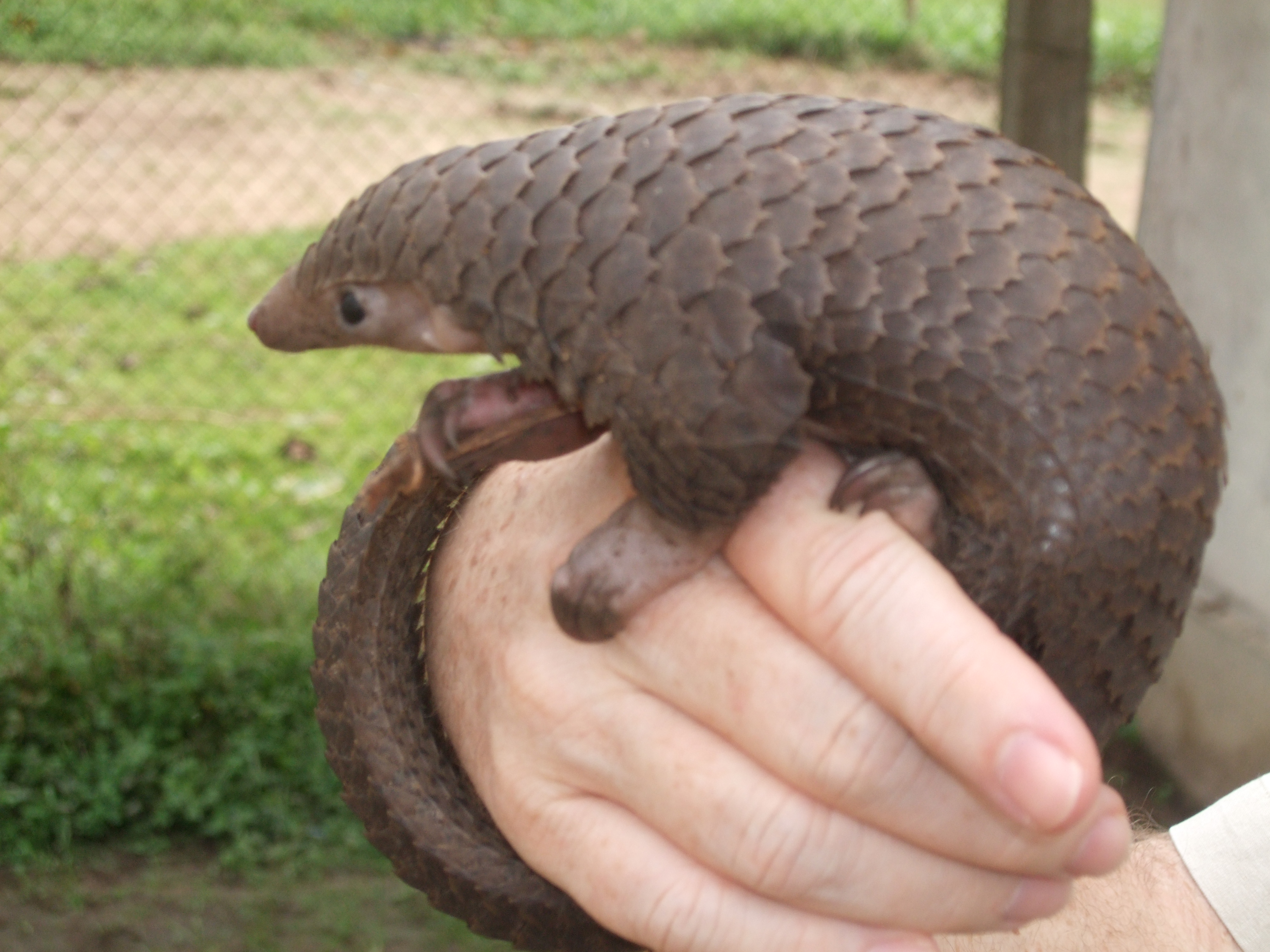 Tree pangolin (Phataginus tricuspis) in central Democratic Republic of the Congo